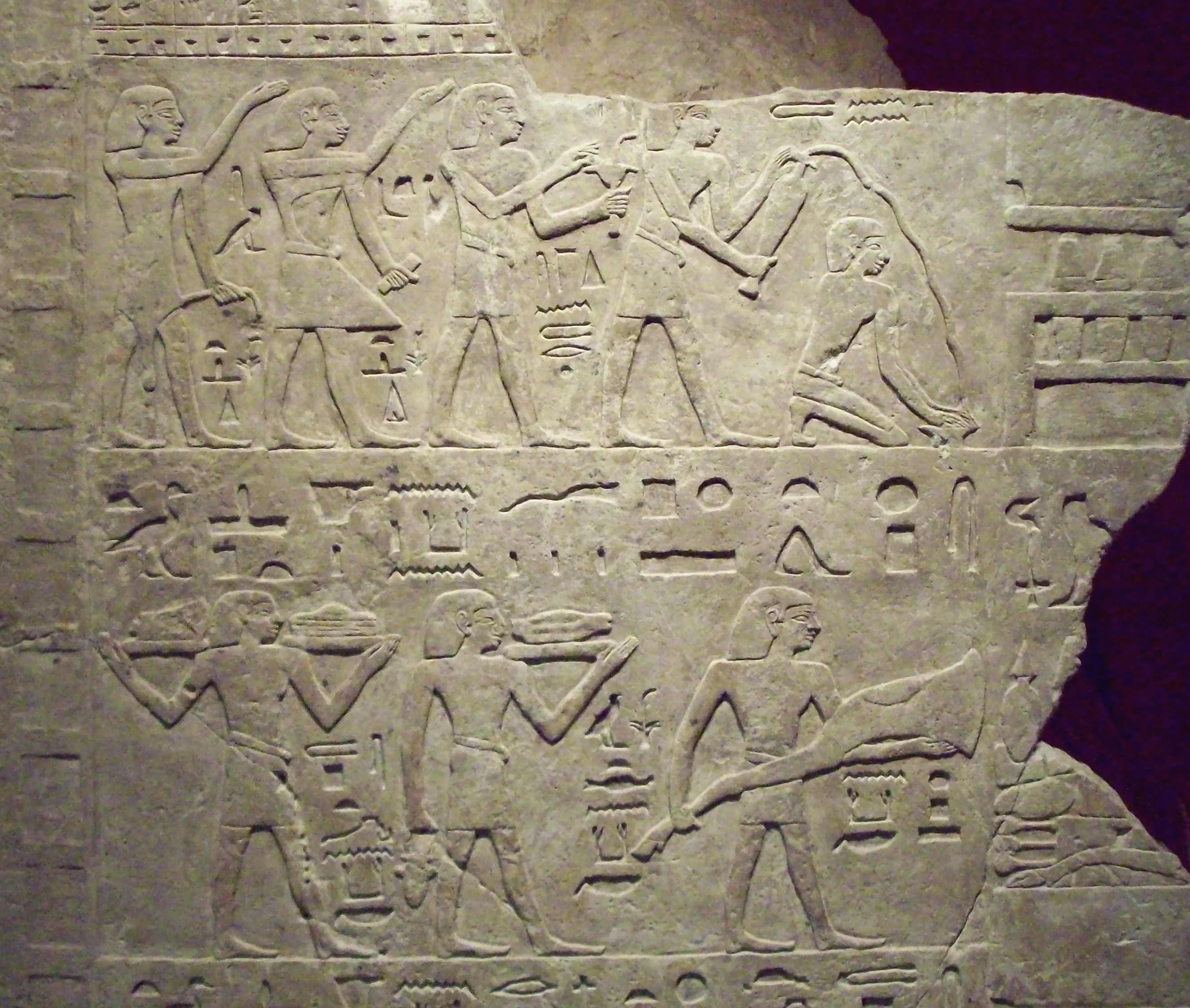 Partial view of the bas-relief from the north wall of an Ancient Egyptian funerary chapel containing the tombs of district governor Neferkhau-(Nfr-khaU) and a woman named Sat-Bahetep (probably his wife)-(Sa-t, Ba-htp). Piece is dated between 9th and 11th dinasties. It shows a funerary food-offering ritual for Sat-Baheteps's ka. (Their names: his: Beautiful-Sun-risingS, hers: Daughter-(female), 'Ba-spirit'-"beautiful", (or wonderful).)